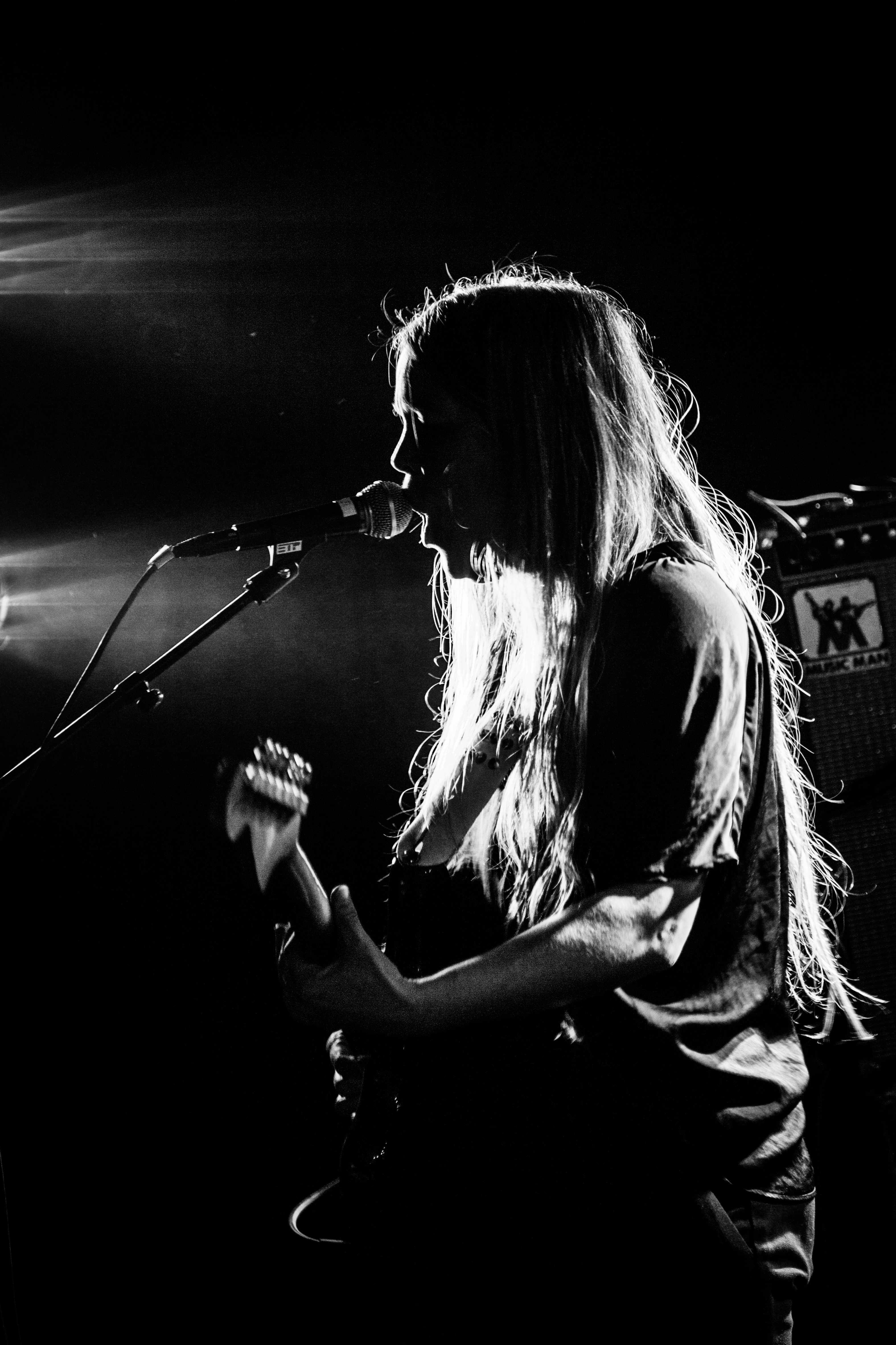 Speaker Bite Me performing live at A Colossal Weekend 2017, Copenhagen, Denmark